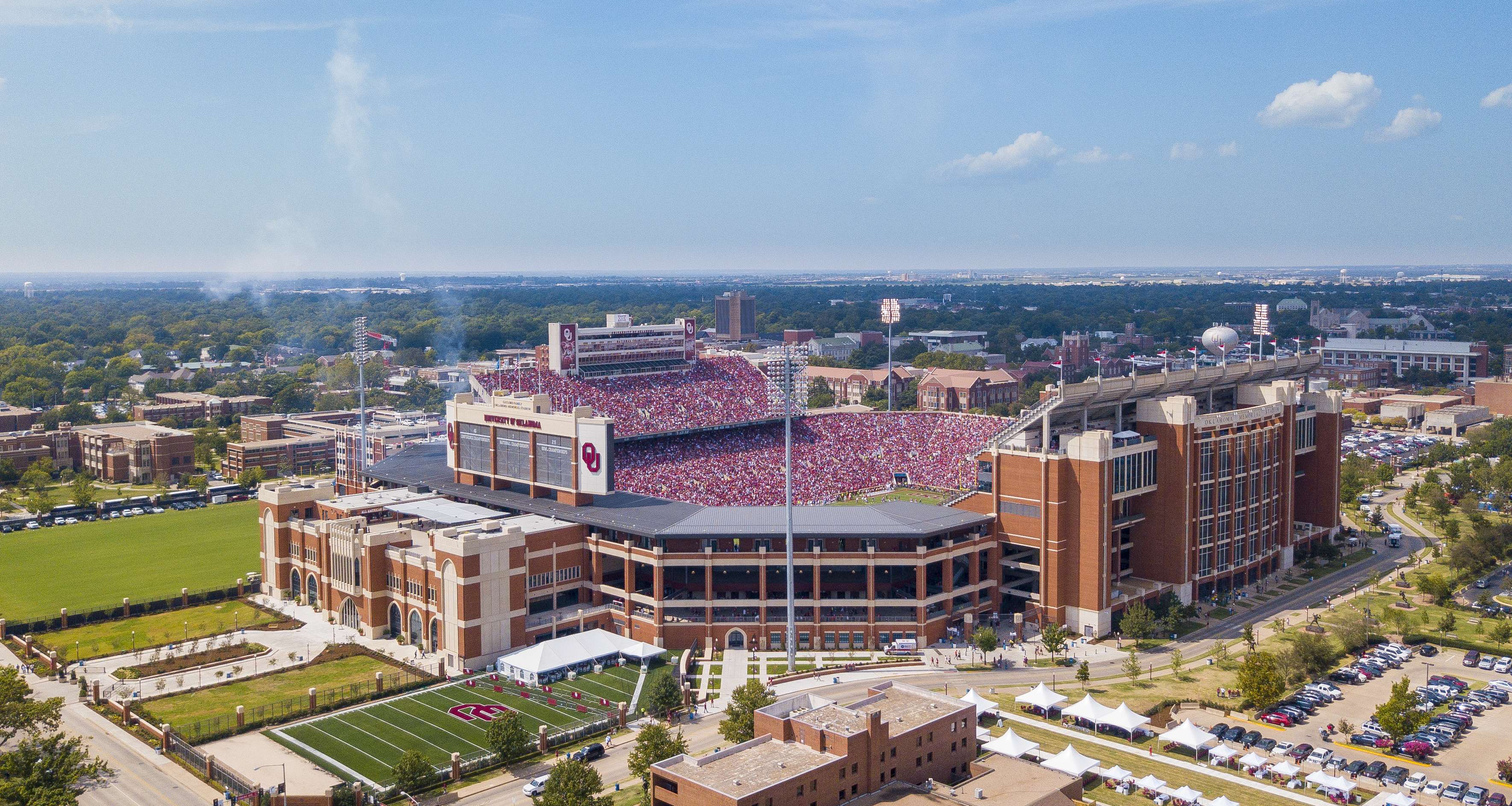 The Gaylord Family - Oklahoma Memorial Stadium with the newly finished south entrance and enclosed south side of the stadium on September 2, 2017, in the season's first game against the UTEP Miners.